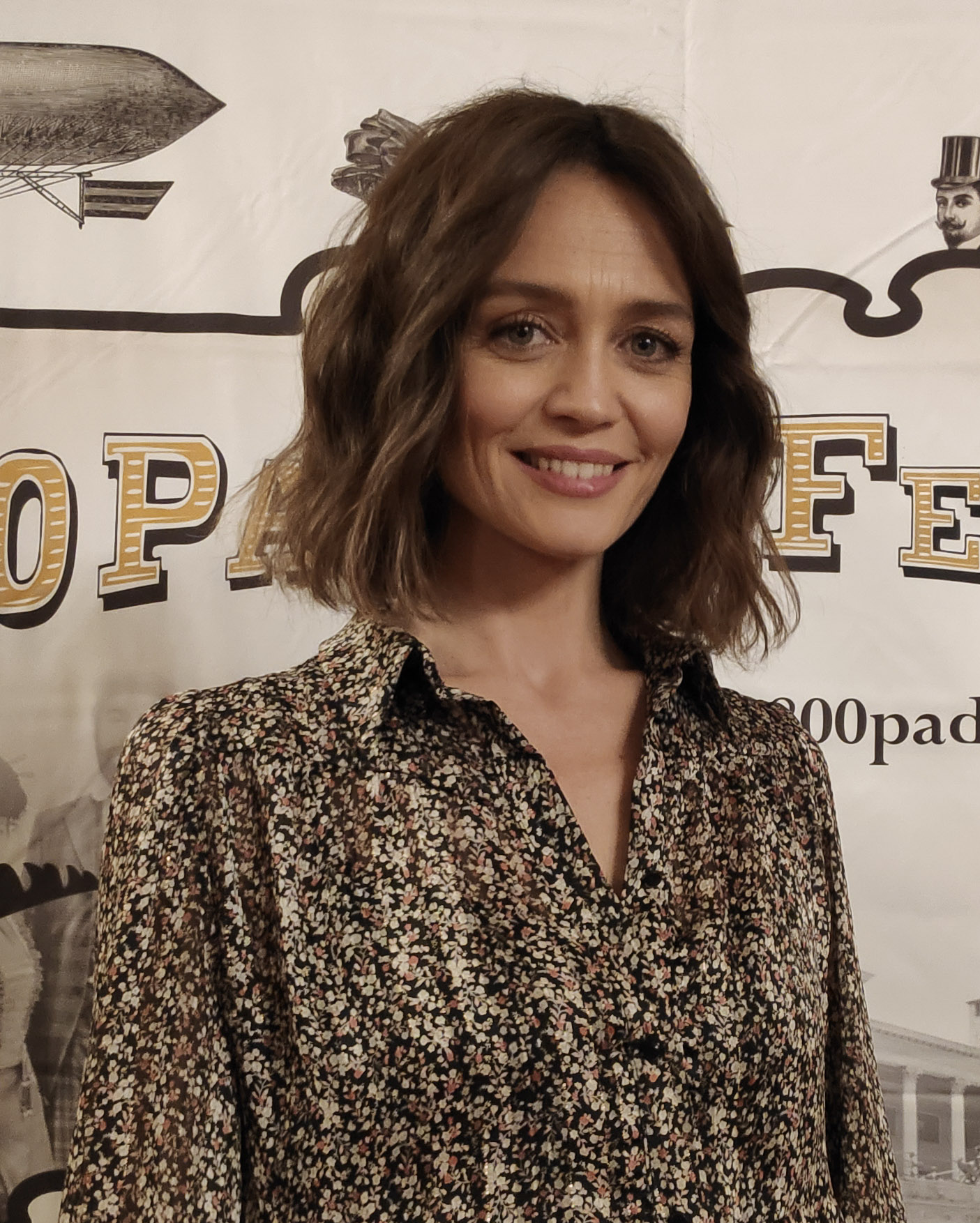 Francesca Cavallin all'800 Padova Festival